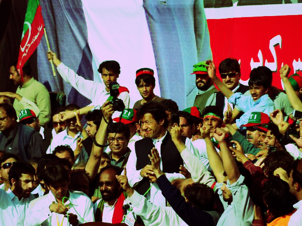 PTI & Imran Khan back up with people living in Hazara on provincial demand, it was announced on 8 April 2012 address to thousands of Pakistanis.